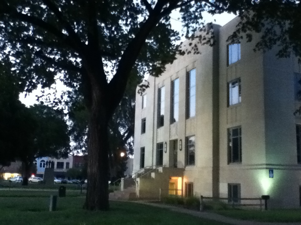 A side view of the Garfield County Courthouse in Enid, Oklahoma.